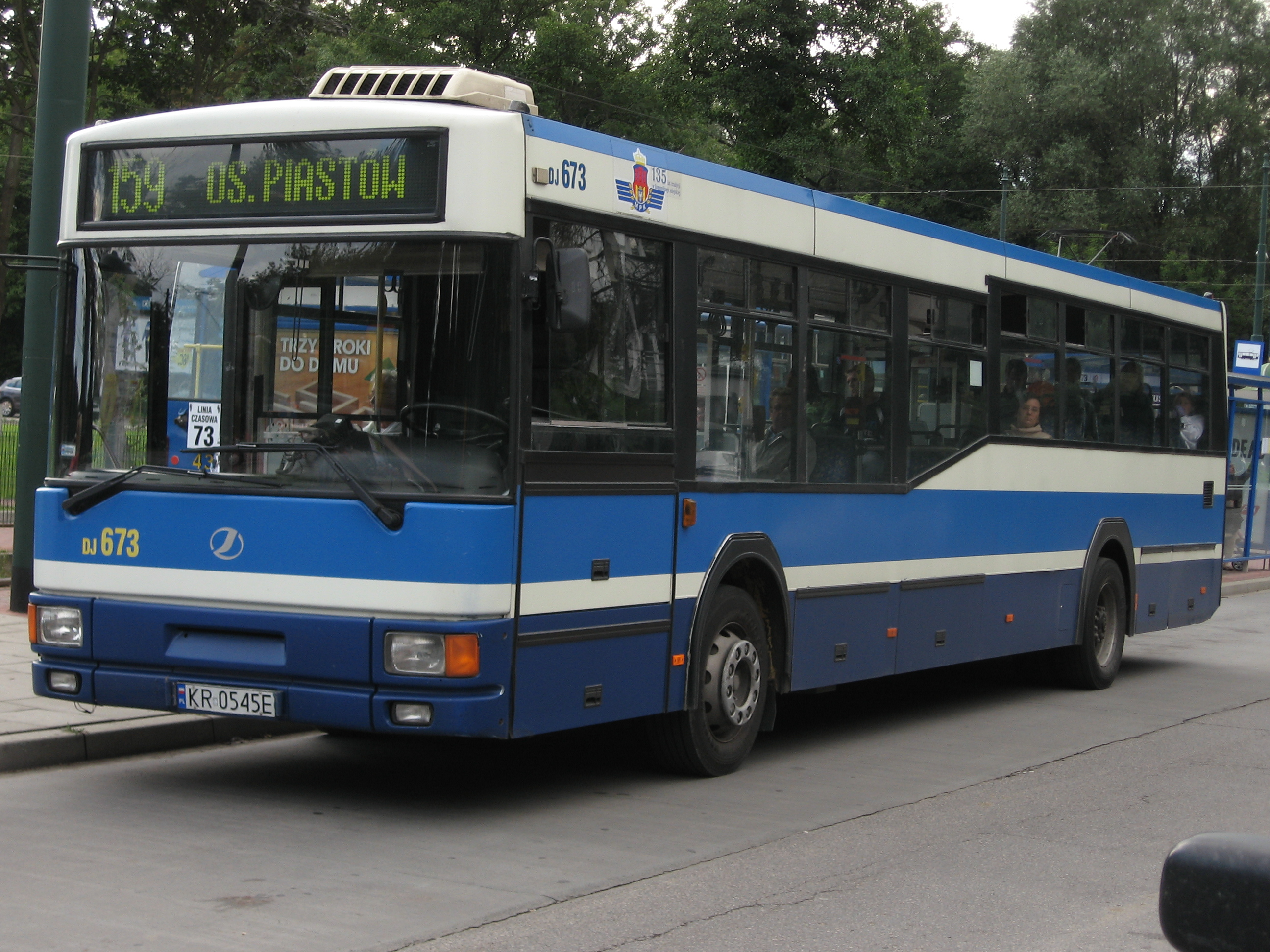 Jelcz M121MB bus (#DJ673, reg. KR 0545E) of MPK Kraków at a bus stop on Irgców street, Kraków, Poland. Built 2002.